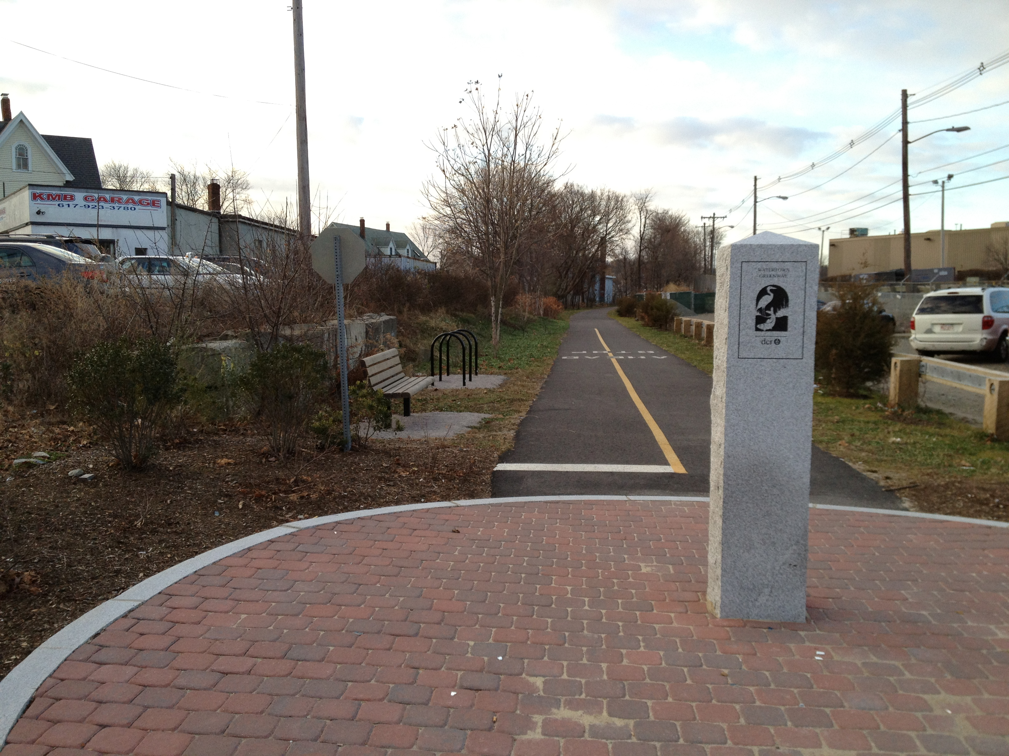 Entry to the Watertown Greenway in Watertown, Massachusetts, USA.